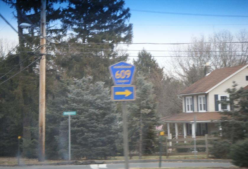 Eastbound County Route 514 at the intersection with Hunterdon County Route 609 in Reaville, New Jersey